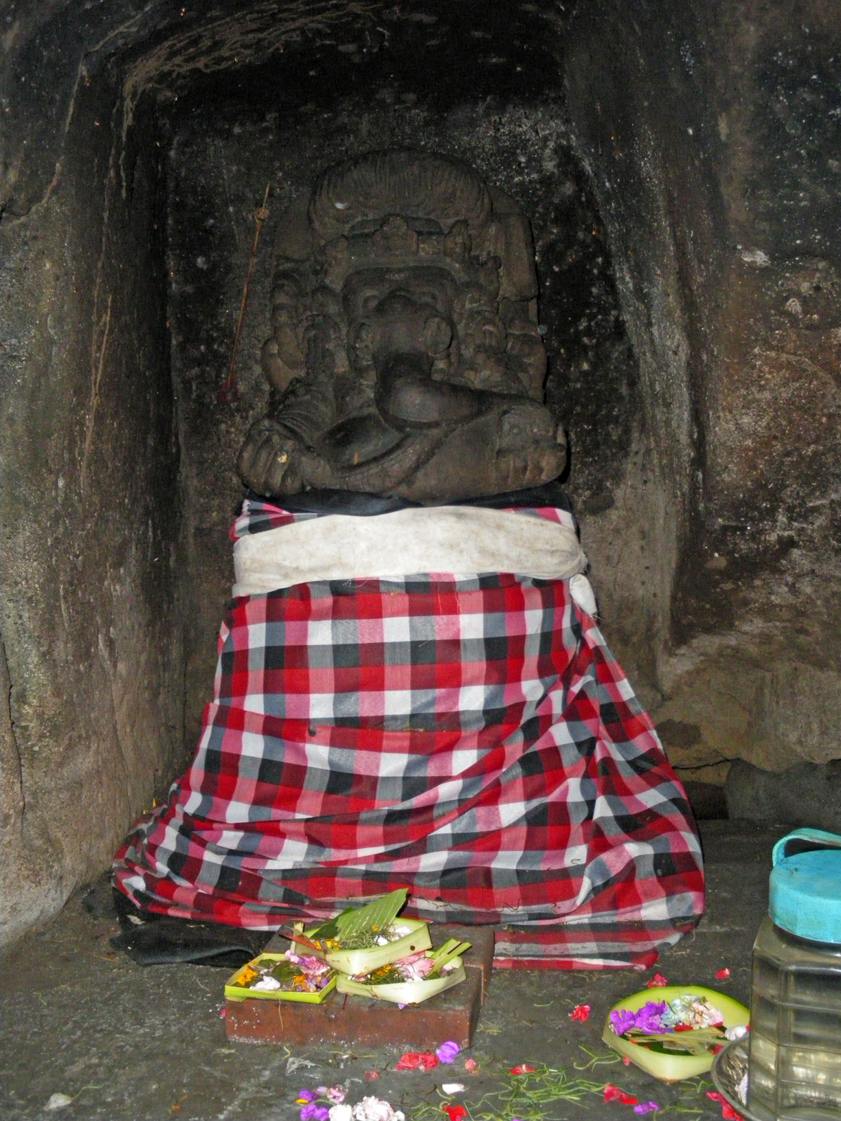 Ganesh in the temple of Goa Gajah (Bali, Indonesia)